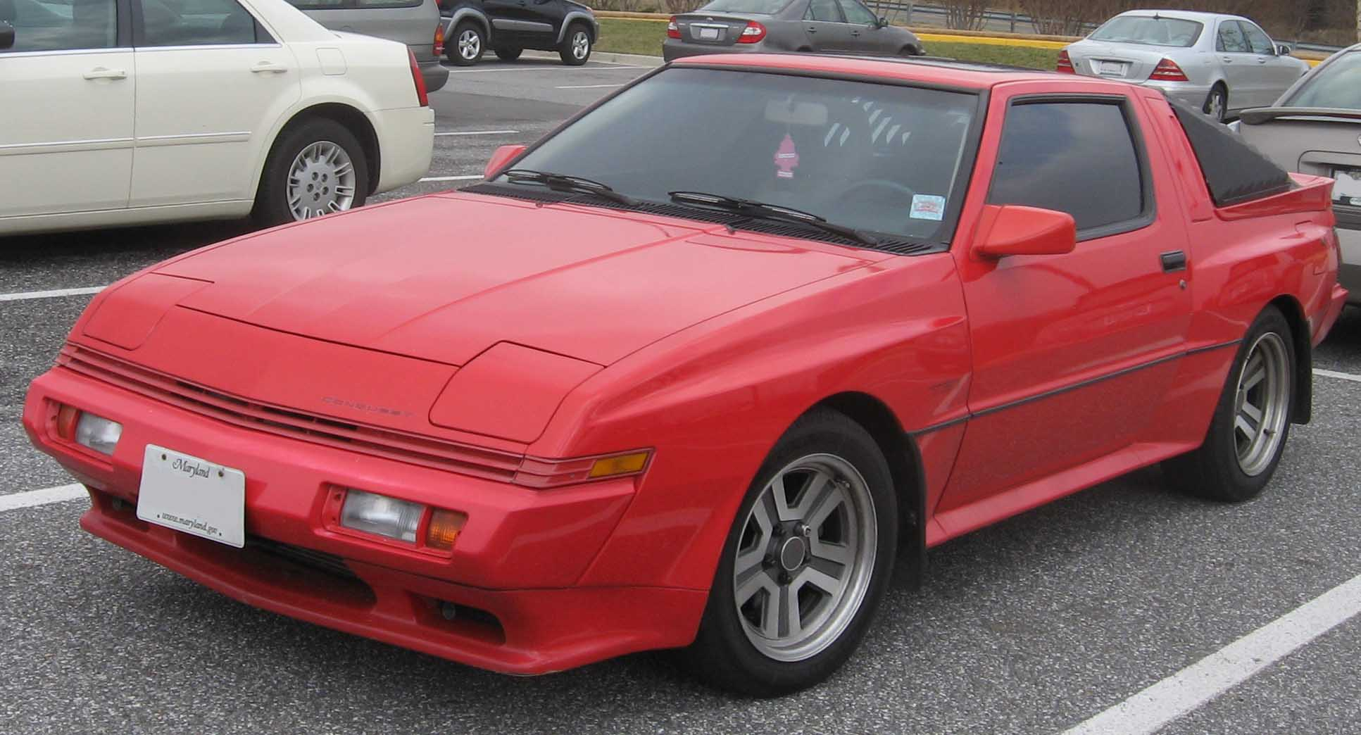 Dodge/Plymouth/Chrysler Conquest photographed in Clinton, Maryland, USA.